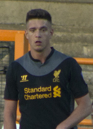 Serge Gnabry of Arsenal attacks the Liverpool U-21 defence